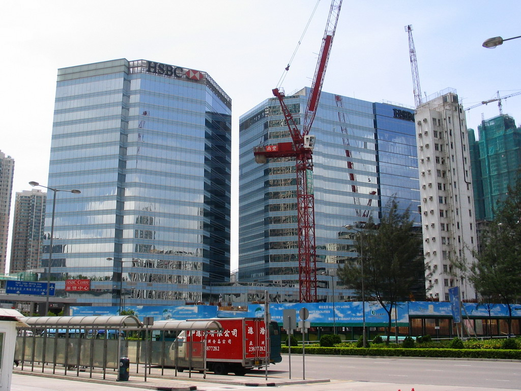 Cherry Street Project under construction (2006/05), HSBC Centre at the back.